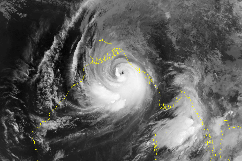 Tropical Cyclone 01B near peak intensity